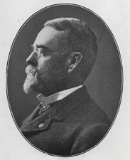 Portrait of Senator John D. Works of California